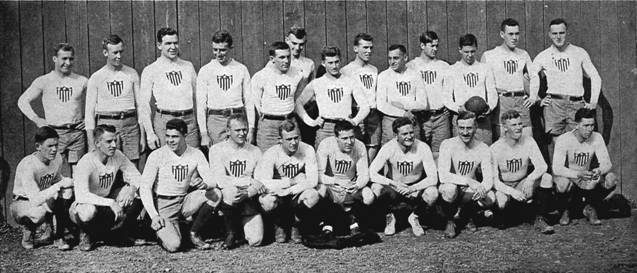 The USA side that played New Zealand in 1913. Back Row (L-R): Daniel Brendon Carroll (Stanford University), Clark Lewis Boulware (not used) (Stanford University), Haley (not used) (Stanford University), William Pettigrew Darsie (Stanford University), Herbert Rowell Stolz (replacement) (Stanford University), Brant (?) or Flemming (not used) (?), Joseph C. Urban (Stanford University), A.Knowles (replacement) (?), Charles A. Austin (Olympic), G. Voight (Santa Clara University), Frank Jacob Gard (Captain) (Stanford University), Roland Roy Blase (Stanford University), William Norris King (University of California). Front Row: Forbes (not used) (?), Stirling Benjamin Peart (University of California), Joseph Louis McKim (University of California), G. Glasscock (Olympic), E.B. Hall (Stanford University), Benjamin Edward Erb (not used) (Stanford University), Louis Cass (Stanford University), Mowatt Merrill Mitchell (Los Angeles Athletic Club), Quill (not used) (Santa Clara), J.A. Ramage (Santa Clara University).